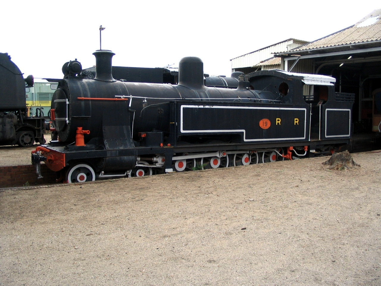 6th Class Nbr 19 .... 4-8-2T Nelson Reid and Co 1906